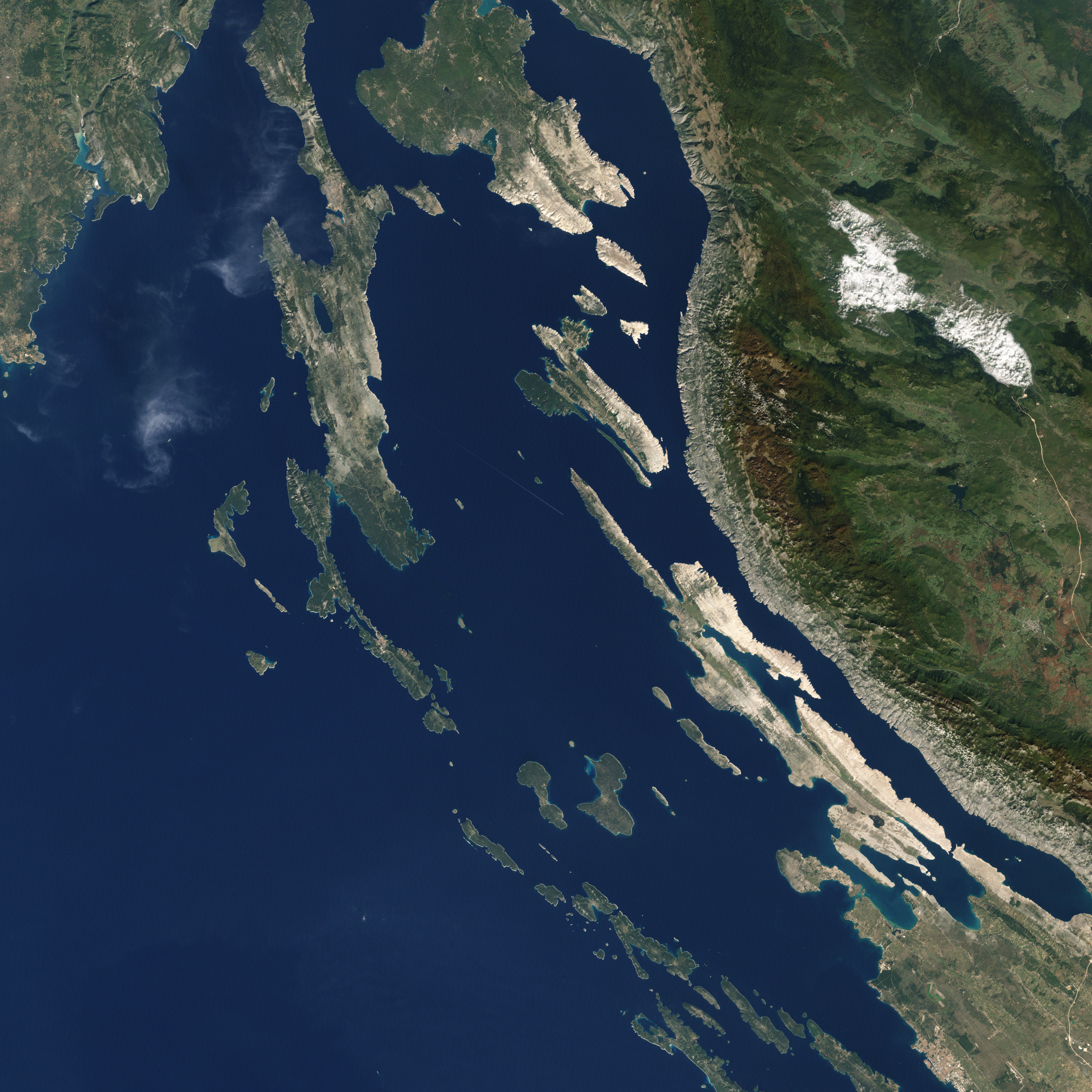 This picture shows some of the Croatian Islands in the Adriatic Sea. Image captured by the Enhanced Thematic Mapper (ETM) on NASA’s Landsat 7 satellite. Landsat data provided by the United States Geological Survey.